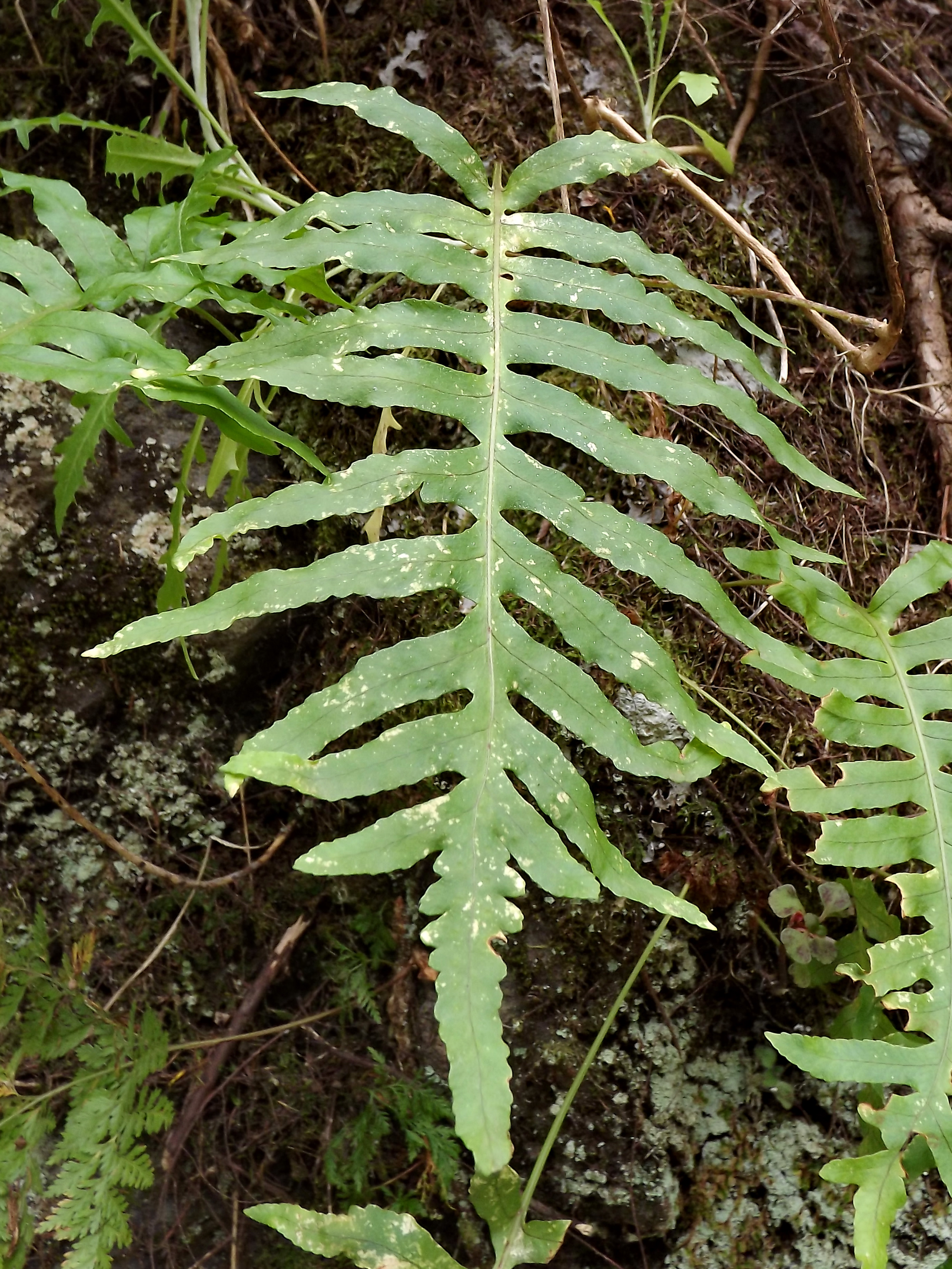 Polypodium macaronesicum, Los Tilos,La Palma (Spain)